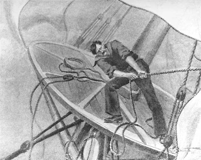 "WILLIS VOLUNTARILY FURLING THE SAIL ALONE" Depiction of Coxswain George Willis, United States Navy. Halftone reproduction of an artwork, published in Deeds of Valor, Volume II, page 96, by the Perrien-Keydel Company, Detroit, 1907. It depicts him furling the loose fore topgallant sail of USS Tigress during a heavy Arctic gale on 22 September 1873, during the search for the missing exploration ship Polaris. Coxwain Willis received the Medal of Honor for his "gallant and meritorious conduct" on this occasion.